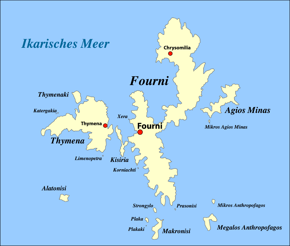 Fourni, Greece (German)